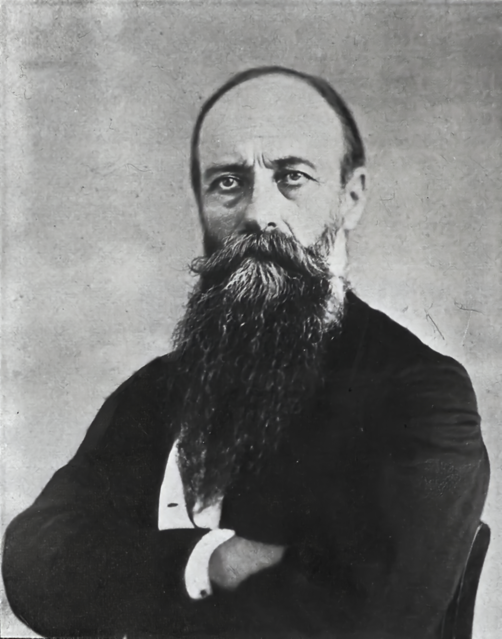 Portrait of British mayanist Augustus Le Plongeon (1826-1908)